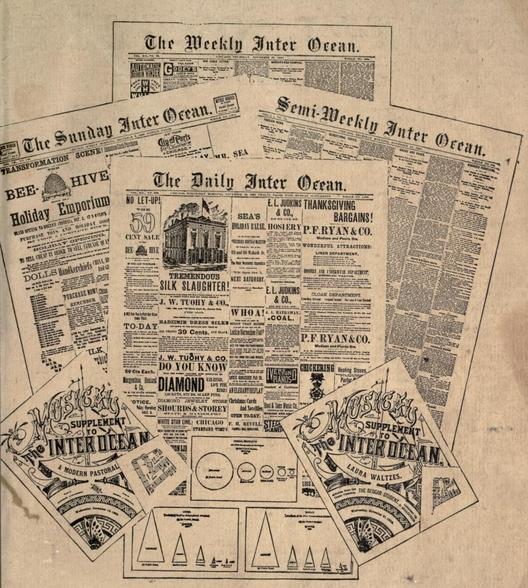 Advertisement detail for the Chicago Inter Ocean, a major Chicago Newspaper, appearing in an 1883 book published by The Inter Ocean Publishing Company.